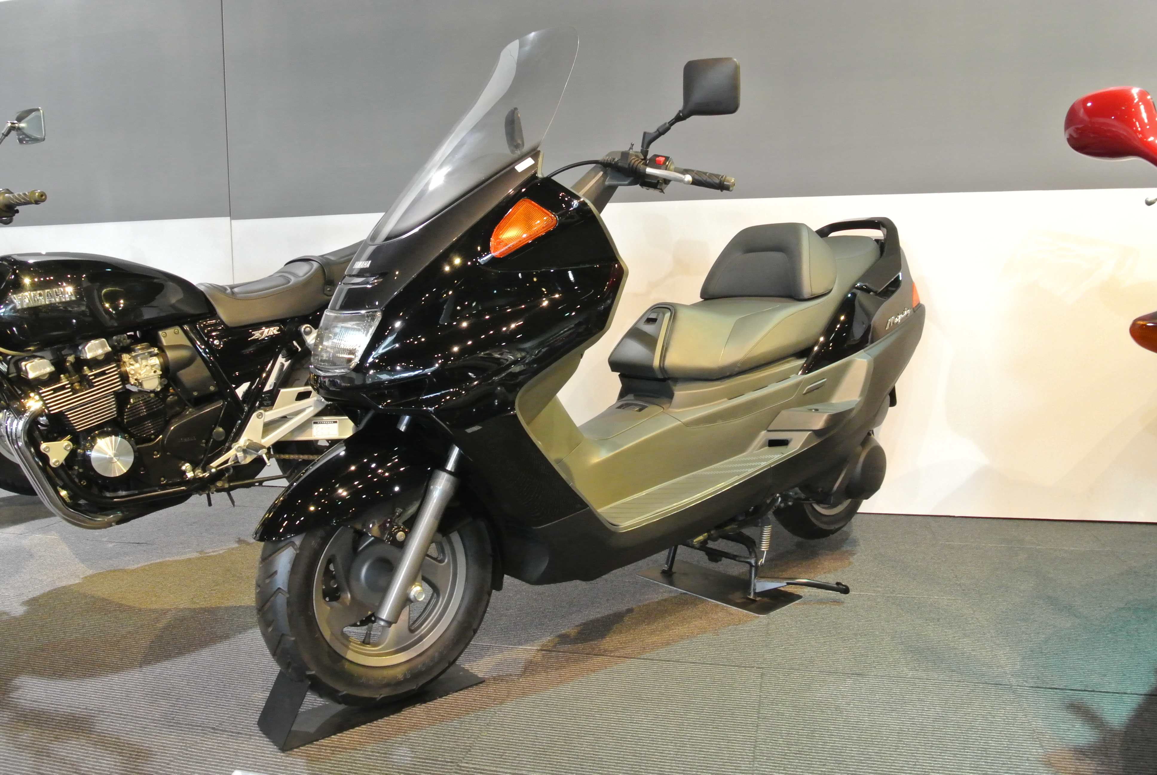 1995 Yamaha Scooter Majesty250 (YP250) in the Yamaha Communication Plaza.